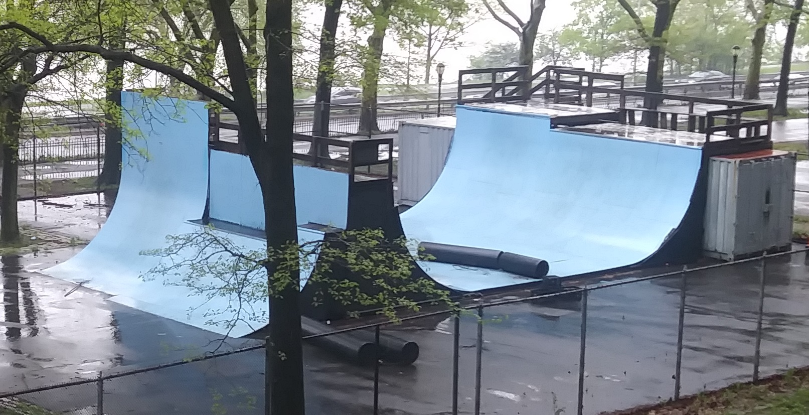 Riverside Skatepark vert ramp looking north with wall ride on the south, vert ramp is 10ft high